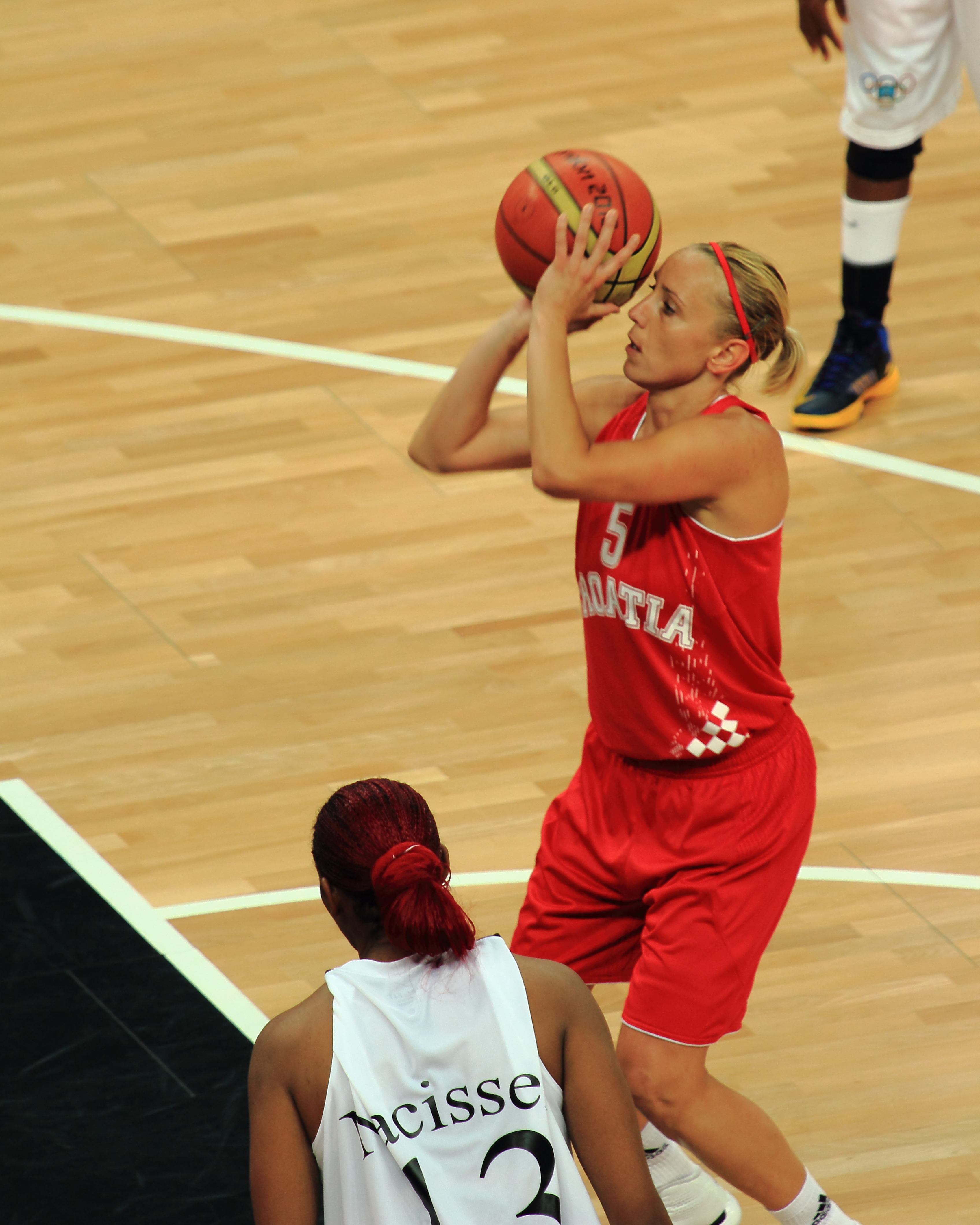 Croatian player Andja JELAVIC lines up a shot at the Basketball Arena, London 2012.